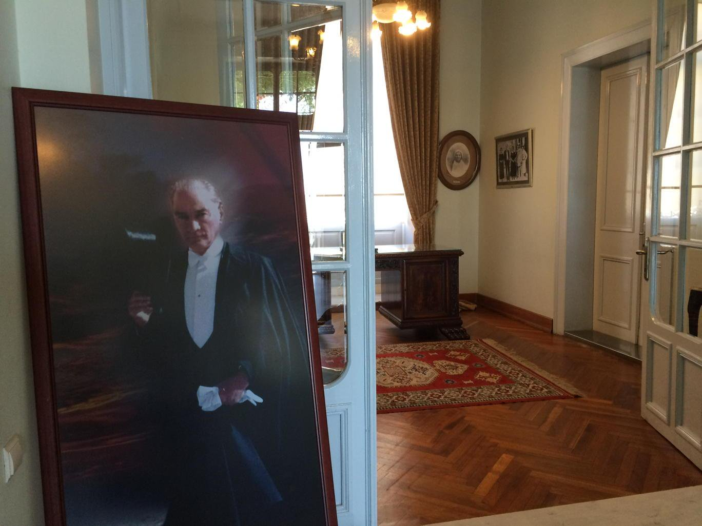 Ataturk's house where he was married in Izmir, May 18, 2015 Image donated to Wikimedia UK by Mark Lowen, former BBC correspondent in Turkey.